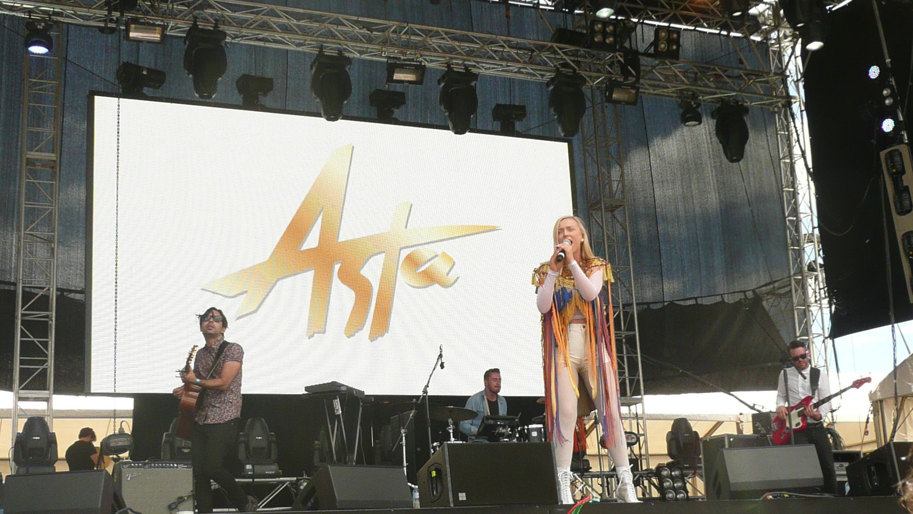 Singer Asta performing at the 2014 Southbound music festival in Busselton, Western Australia.